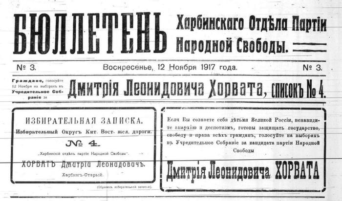 Harbin Kadet Bulletin - 1917 Constituent Assembly election, campaign for Horvath